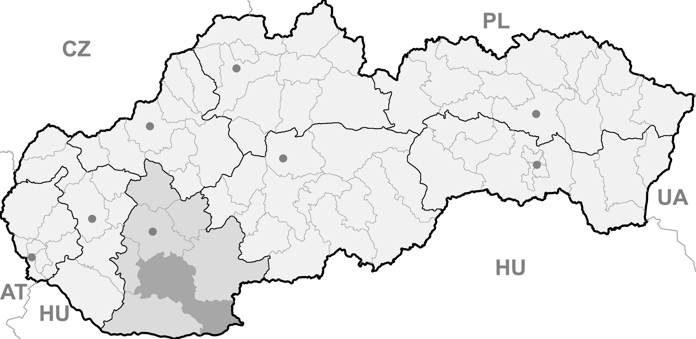 Map of Slovakia, Nové Zámky district and Nitra region highlighted